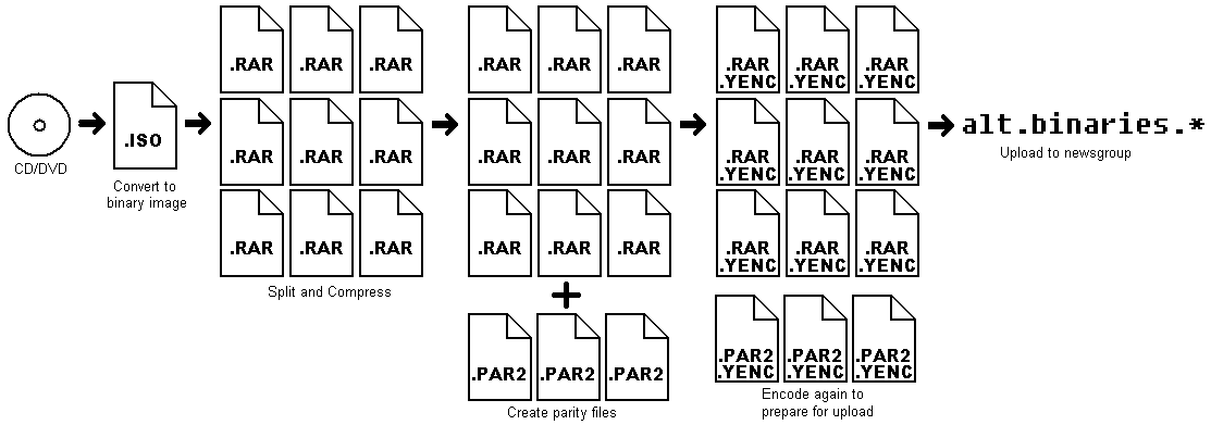 This is a visual representation of the complex process of splitting, converting and preparing data files for transfer through the Usenet binaries newsgroups, when the data to be posted is too large to be posted as a single article.When the data is small enough to be posted as a single article, the splitting and parity creation steps are not necessary.The definition of what posting size is too large can vary from news server to news server, and from newsgroup to newsgroup. But generally the maximum permitted post size has been slowly increasing for years, with servers in the beginning allowing perhaps only 32 kilobytes in a single post (as if a normal text message), to the largest commercial servers now permitting up to 50 megabytes per post for DVD/CD redistribution.The nine RAR sections are shown only for visual compactness and clarity of the process. In actual practice the number of sections for huge files can number in the hundreds. With a maximum article size of 50 megabytes, it takes about 100 posts to upload a 4.7 gigabyte DVD, assuming yEnc is used and no redundant parity recovery files are used. Parity can increase the overall size by up to 30%, and less efficient encodings such as UU or MIME64 can tack on another 25%, nearly doubling the 4.7-gig DVD posting to over 7 gigabytes and 150 posts.If the maximum permitted post size were only 10 megabytes, this increases the total number of sections of this example DVD posting to 750 articles, and greatly increases the risk of missed sections and an unusable download.